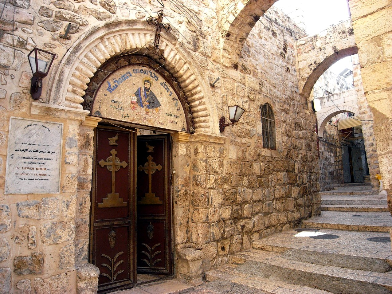 Jerusalem Original caption: " It is the site of the home of St Mark's mother, Mary, where Peter went after he was released from prison by an angel. The Virgin Mary is claimed to have been baptised here, and according to their tradition this, not the Cenacle on Mt Zion, is where the Last Supper was eaten."